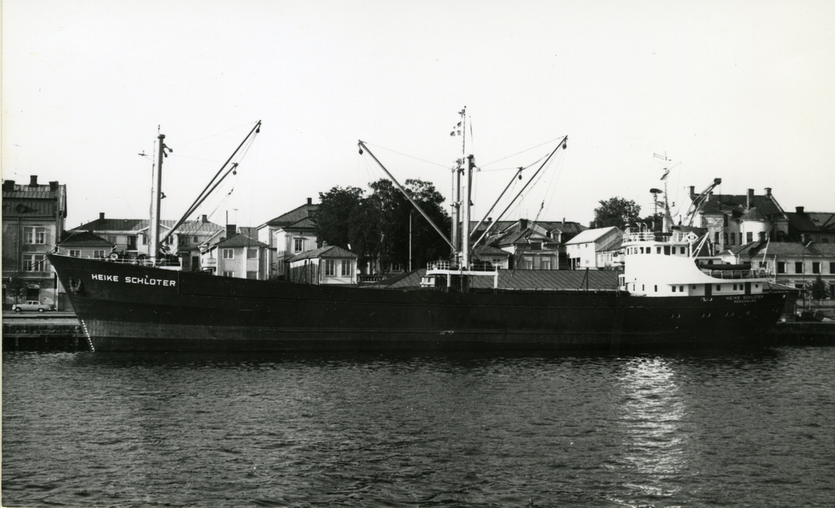 Coaster HEIKE SCHLÜTER (IMO 6520727) built at Husumer Schiffswerft, Husum (yard № 1225, delivered: 07-1965), later names: 1973 HEIDE CATRIN, 1975 LEWROSE, foundered off Honduras 05-11-1983 (16.05N, 87.20W), photo by J. Robert Boman (1926 - 2002), copyright owned by Sjöhistoriska museet.